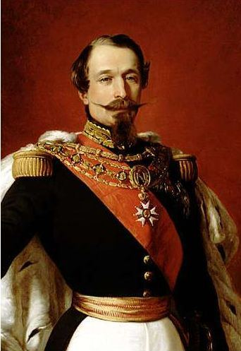 Detail of the portrait by Franz Xaver Winterhalter (1805–1873)